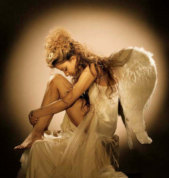 Najoua Belyzel photographed by Studio Harcourt Paris